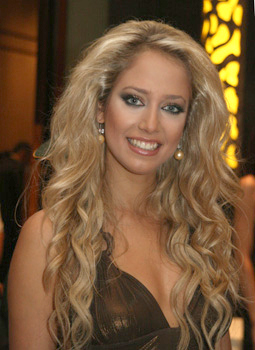 Miss Greece 2007 - Aikaterini Evangelinou in Miss World 2007, Sanya, China